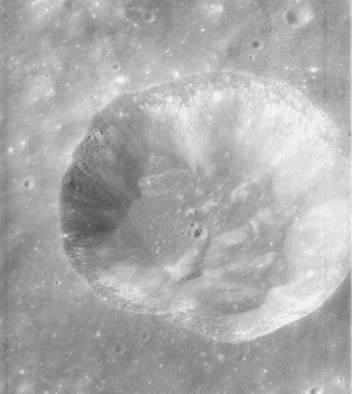 Oblique view of Conon, on the moon. Approximate north at bottom.